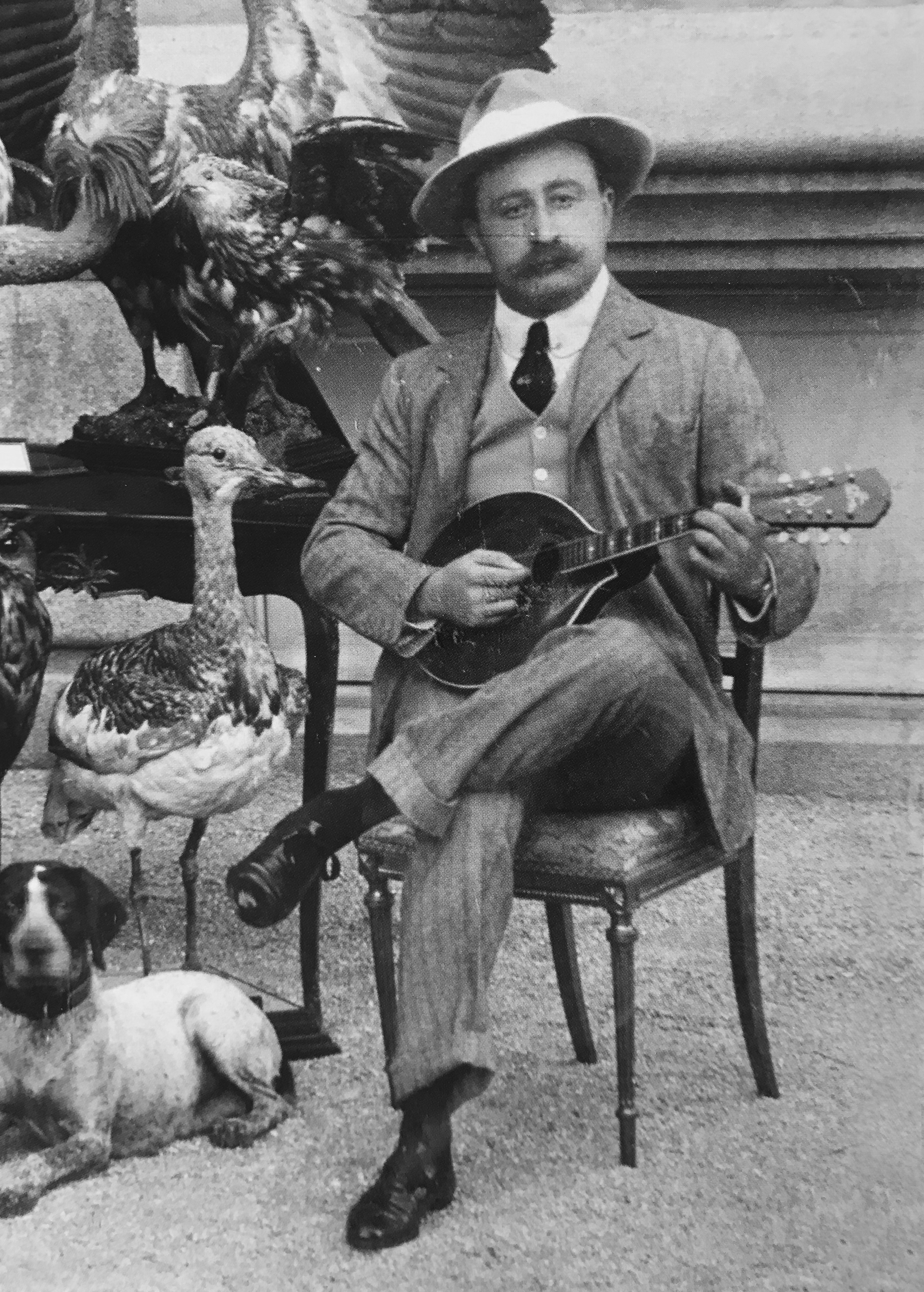 The 17th Duke of Medinaceli surrounded by some of the small game animals he hunted for his museum, Palace of Uceda, Madrid